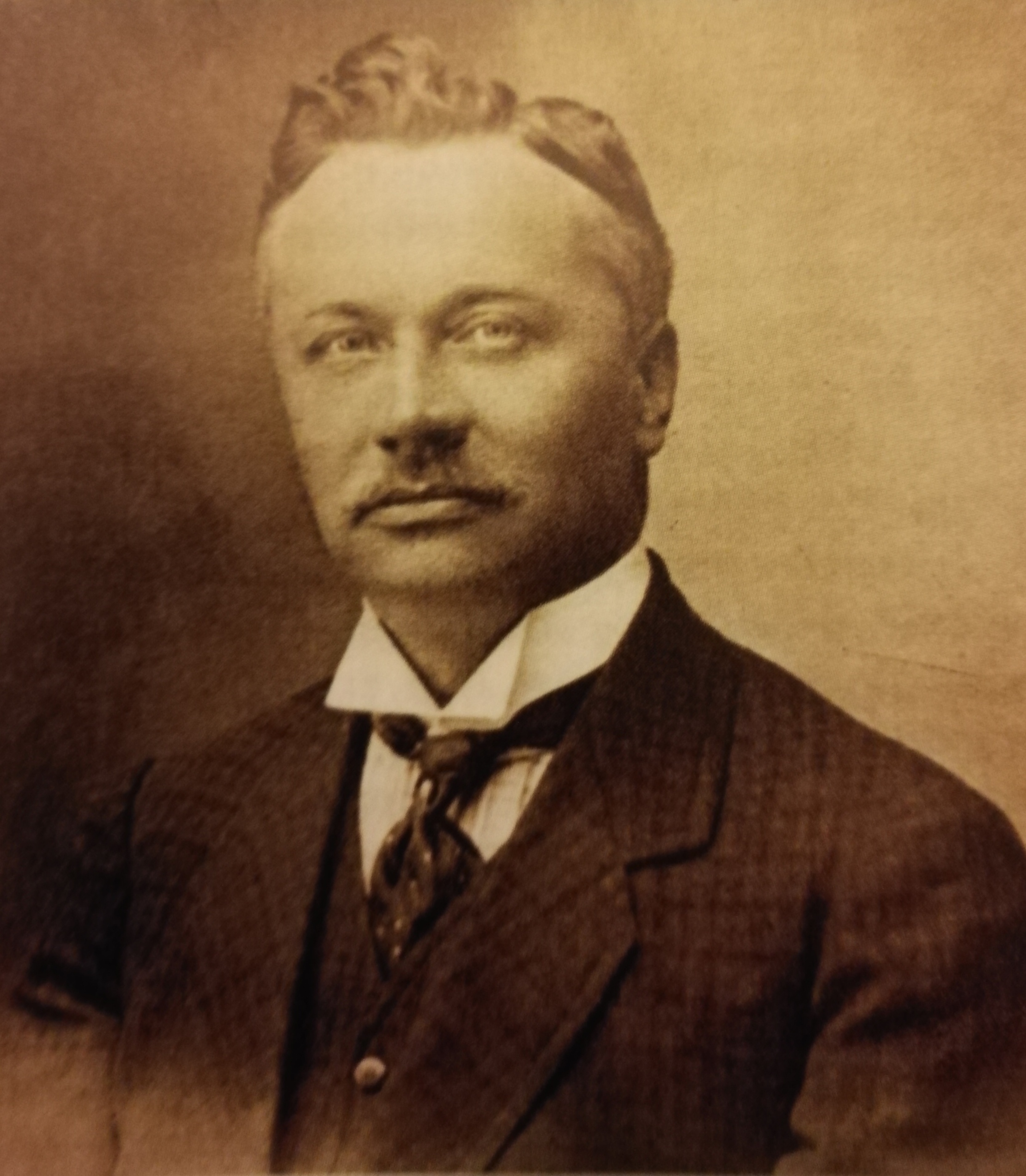 Photographic portrait of Jean-François Arthème Fayard (1836-1895), publisher and owner of Librairie Arthème Fayard (Paris).